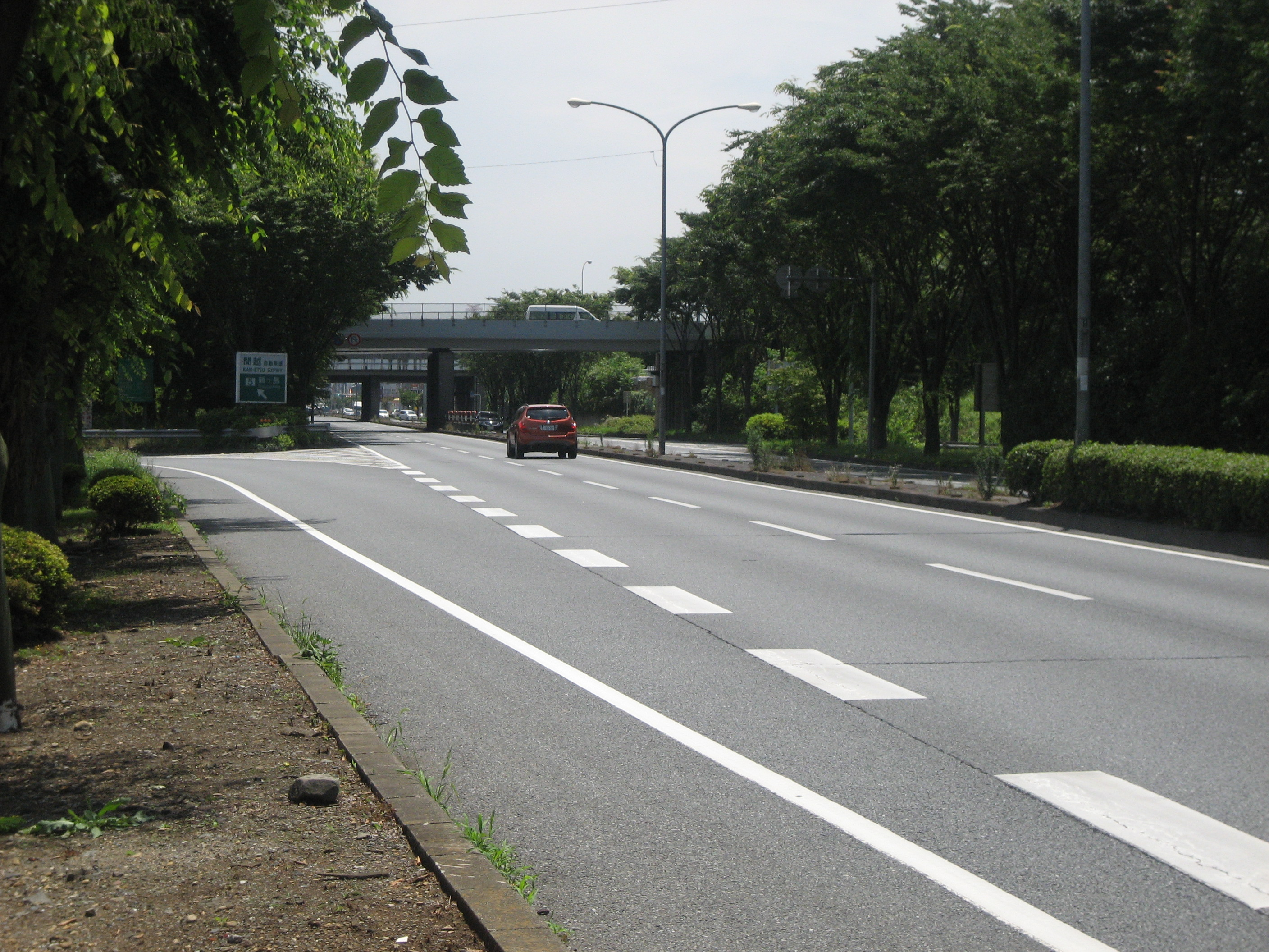 Entrance to Tsurugashima Interchange on the Kan-etsu Expressway from the National Route 407